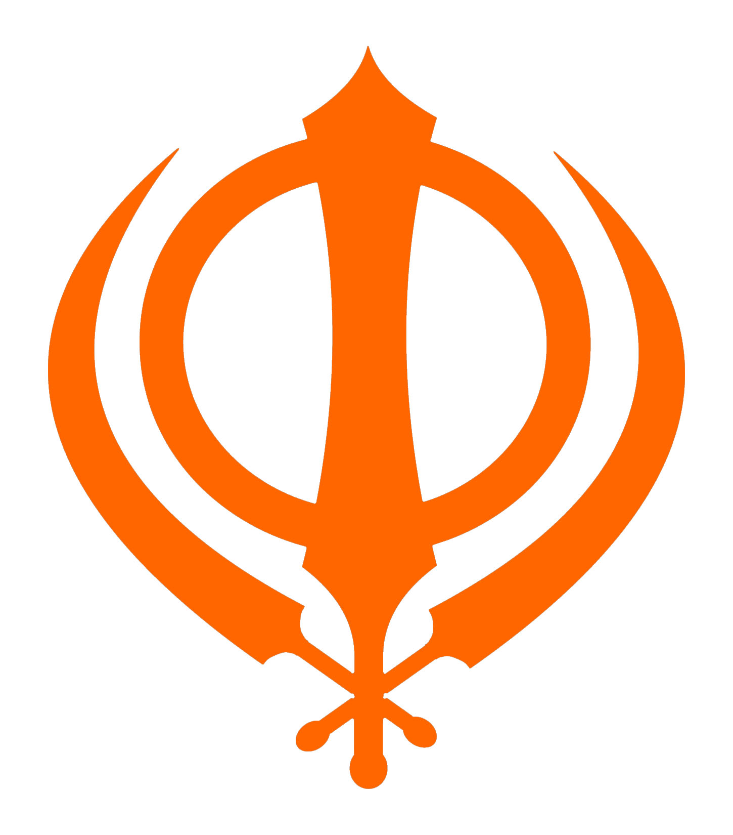 Sikhism Related Graphic of Khanda - one of important "logos" of this faith.